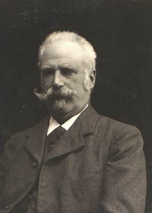 Danish architect and archaeologist Julius Bentley Løffler (1843-1904)